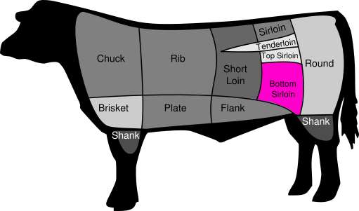 Bottom sirloin in the beef cut chart.